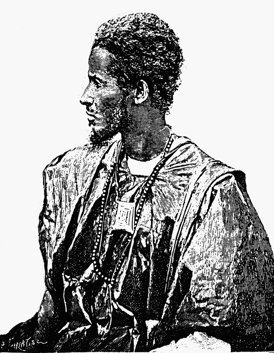 Réclus, La Géographie, 1898 (member of the Kunta clan of marabutish status)